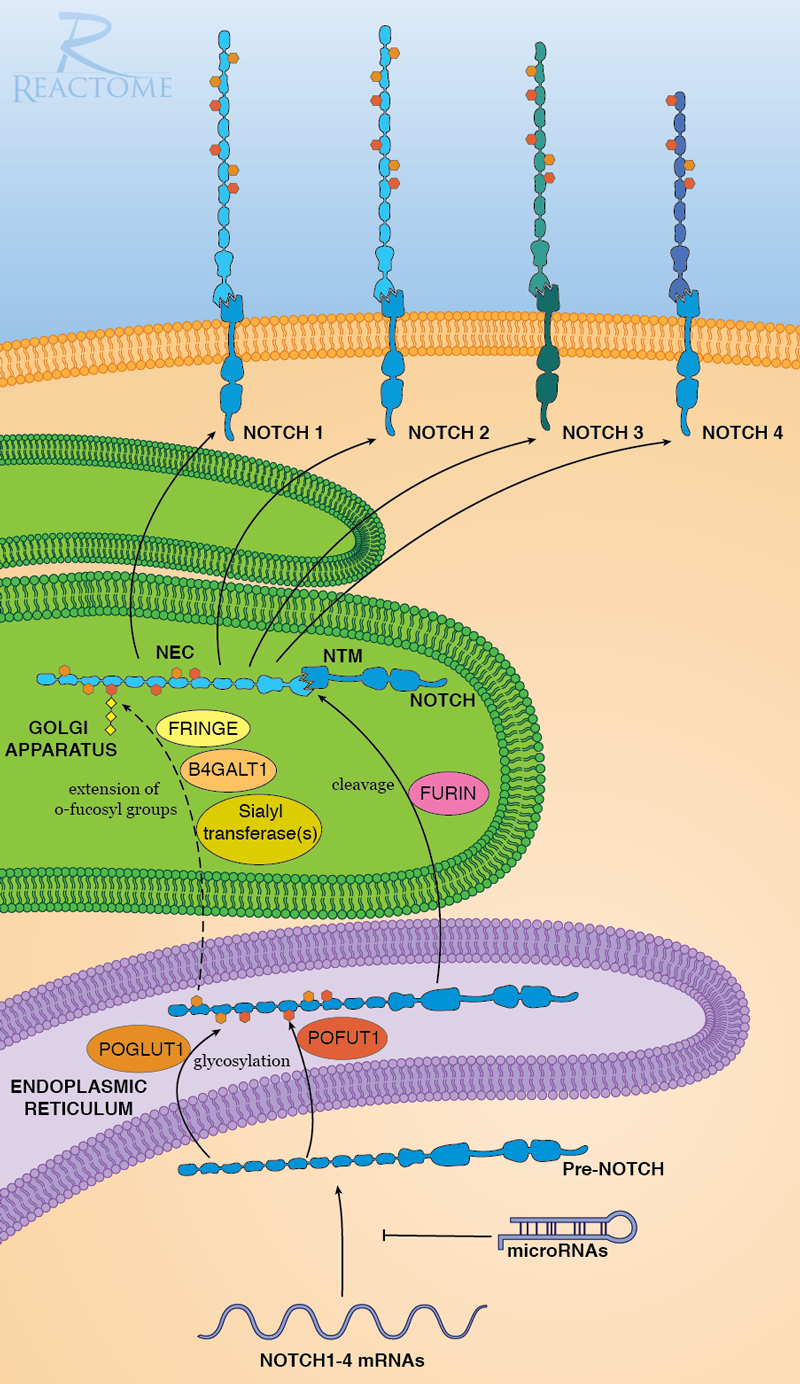 Pre-NOTCH processing diagram, includes modification by POFUT-1